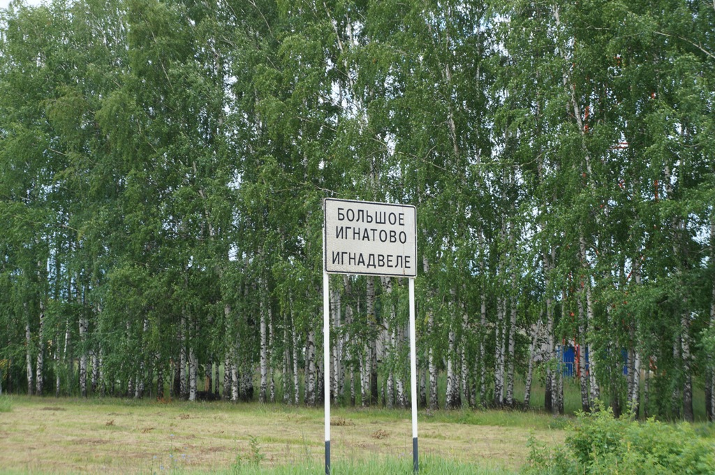 Road sign in Russian and Erzyan. Bolshoe Ignatovo, Bolsheignatovsky district of Mordovia.